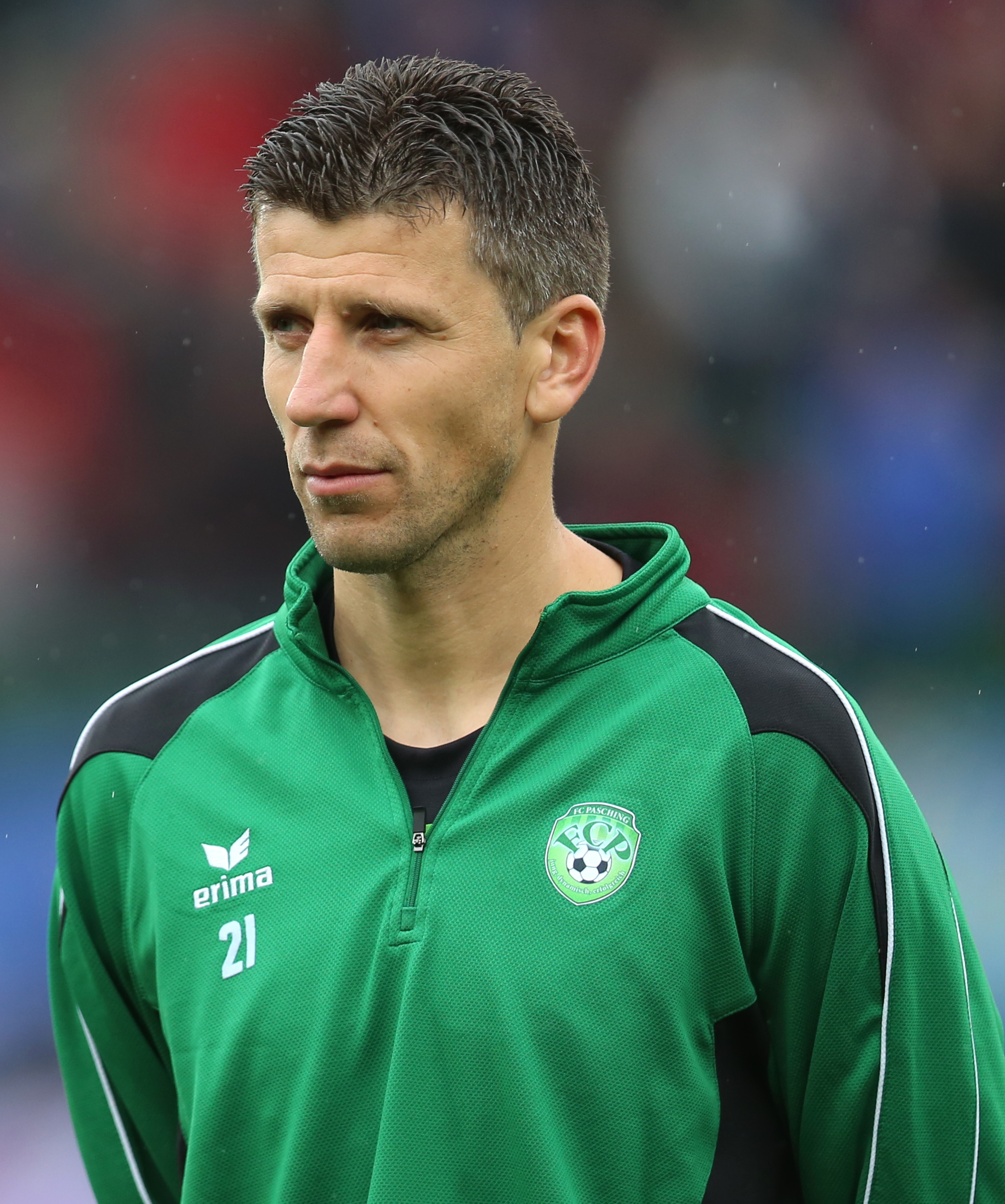 ÖFB-Cupfinale am 30. Mai 2013 im Ernst-Happel-Stadion (FC Pasching gegen FK Austria Wien 1:0). Im Bild der Verteidiger Davorin Kabla (FC Pasching). The making of this work was supported by Wikimedia Austria. For other files made with the support of Wikimedia Austria, please see the category Supported by Wikimedia Österreich.